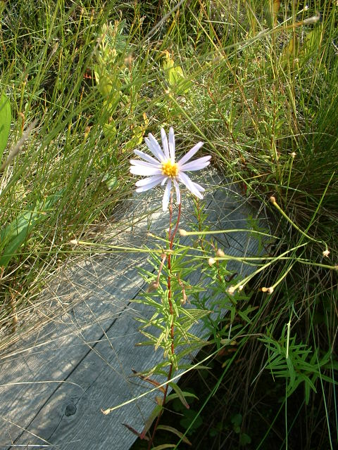 Oclemena nemoralis (bog-aster), Pancake Bay Provincial Park, Ontario, Canada